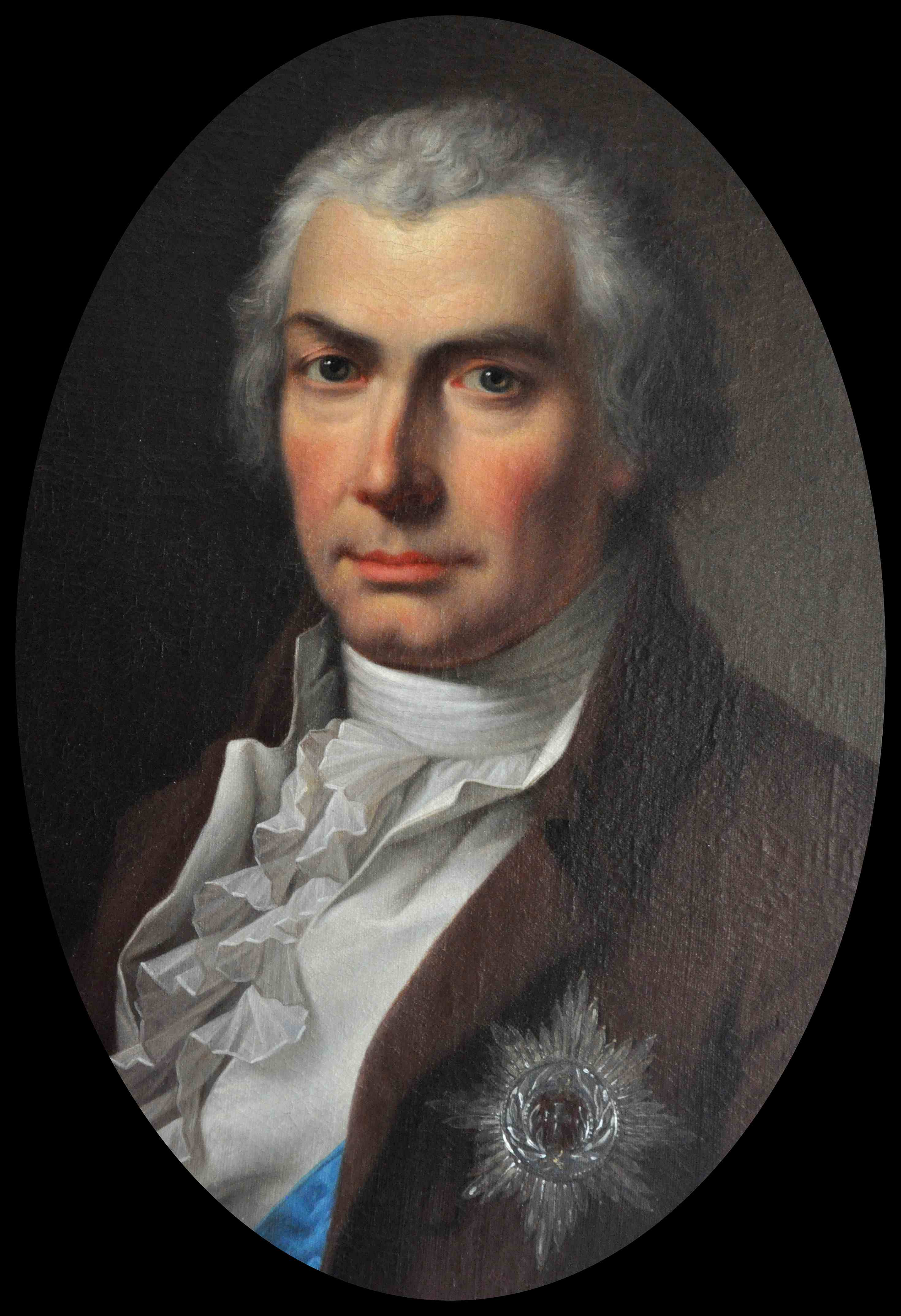 Christian Ditlev Frederik Reventlow, Prime minister and reformer